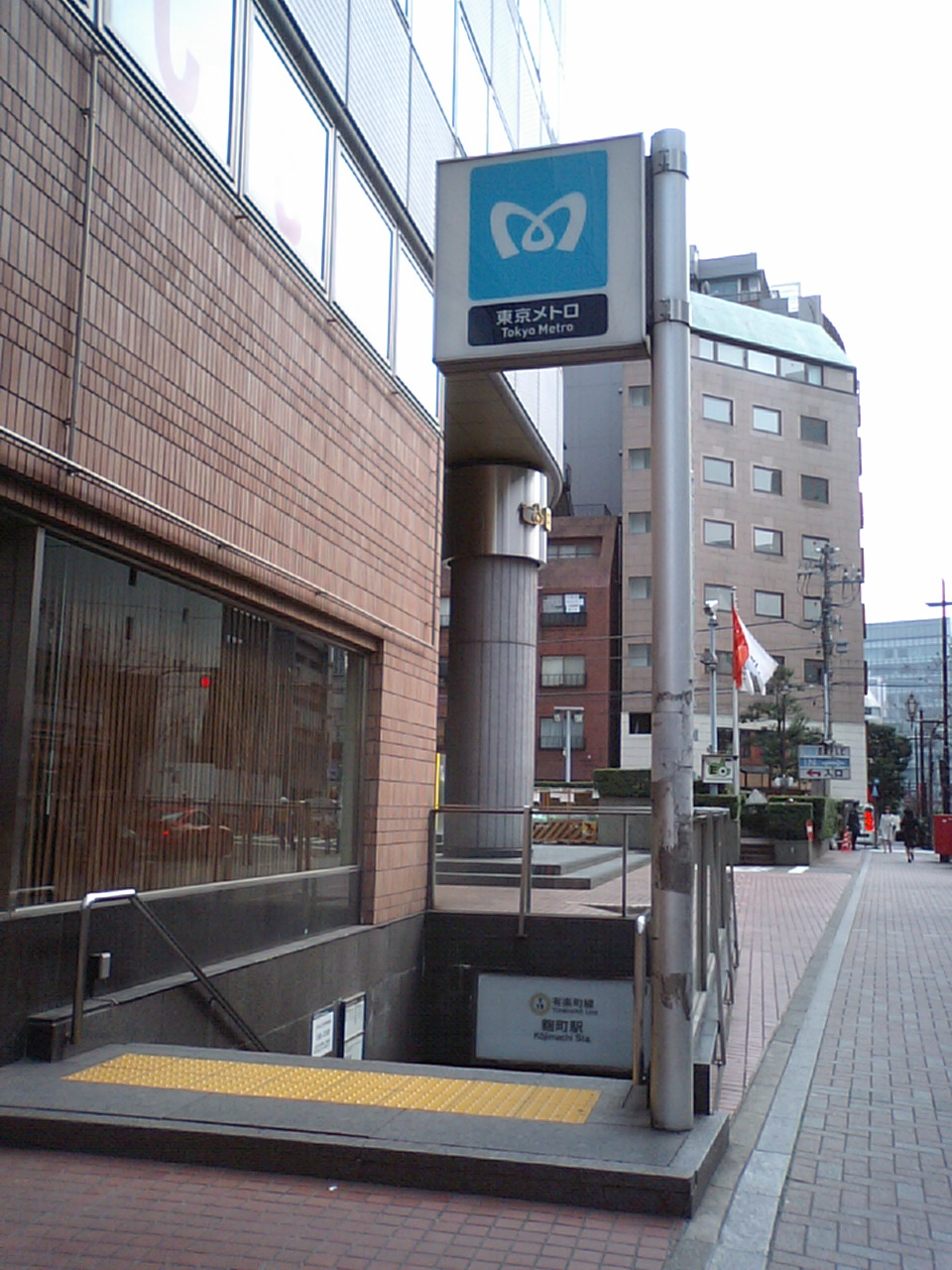 Kōjimachi station Banchō entrance, Nihon TV Kōjimachi building